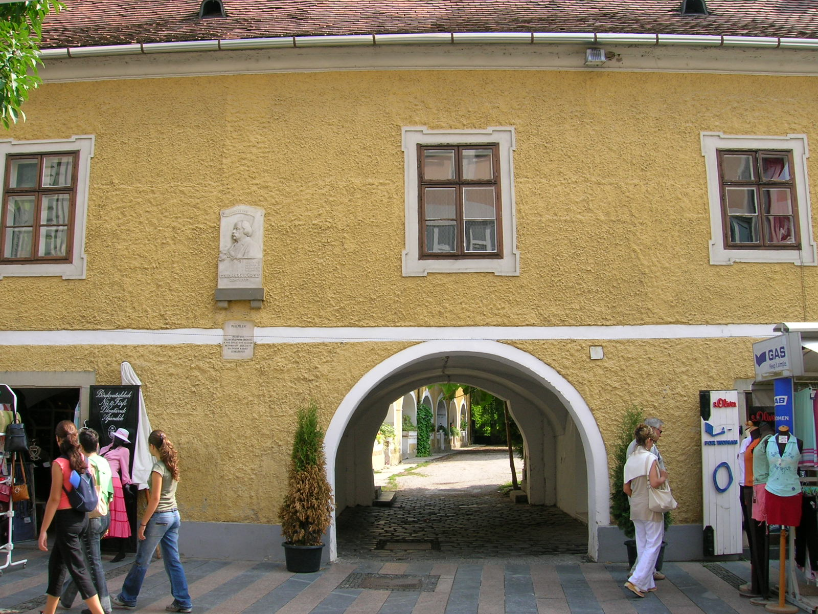 A house in the town centre; the violinist Károly Goldmark was born here. Keszthely, Hungary.